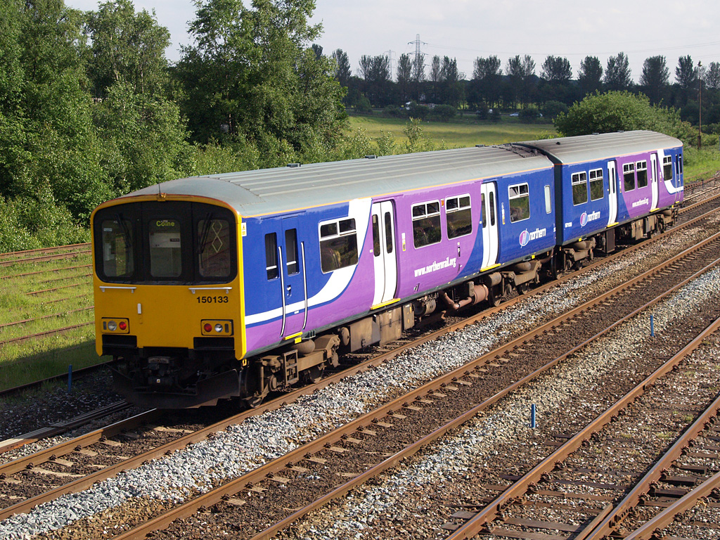 Northern Rail (leased from Angel Trains) former British Railways British Rail Engineering Limited class 150/1 ‘Sprinter’ two car diesel-hydraulic multiple unit number 150133 (57133 and 52133) of Newton Heath TMD passes Castleton East Junction on the Up Main line forming the 17:03 (SX) Rochdale to Colne (2N53). Wednesday 4th June 2008